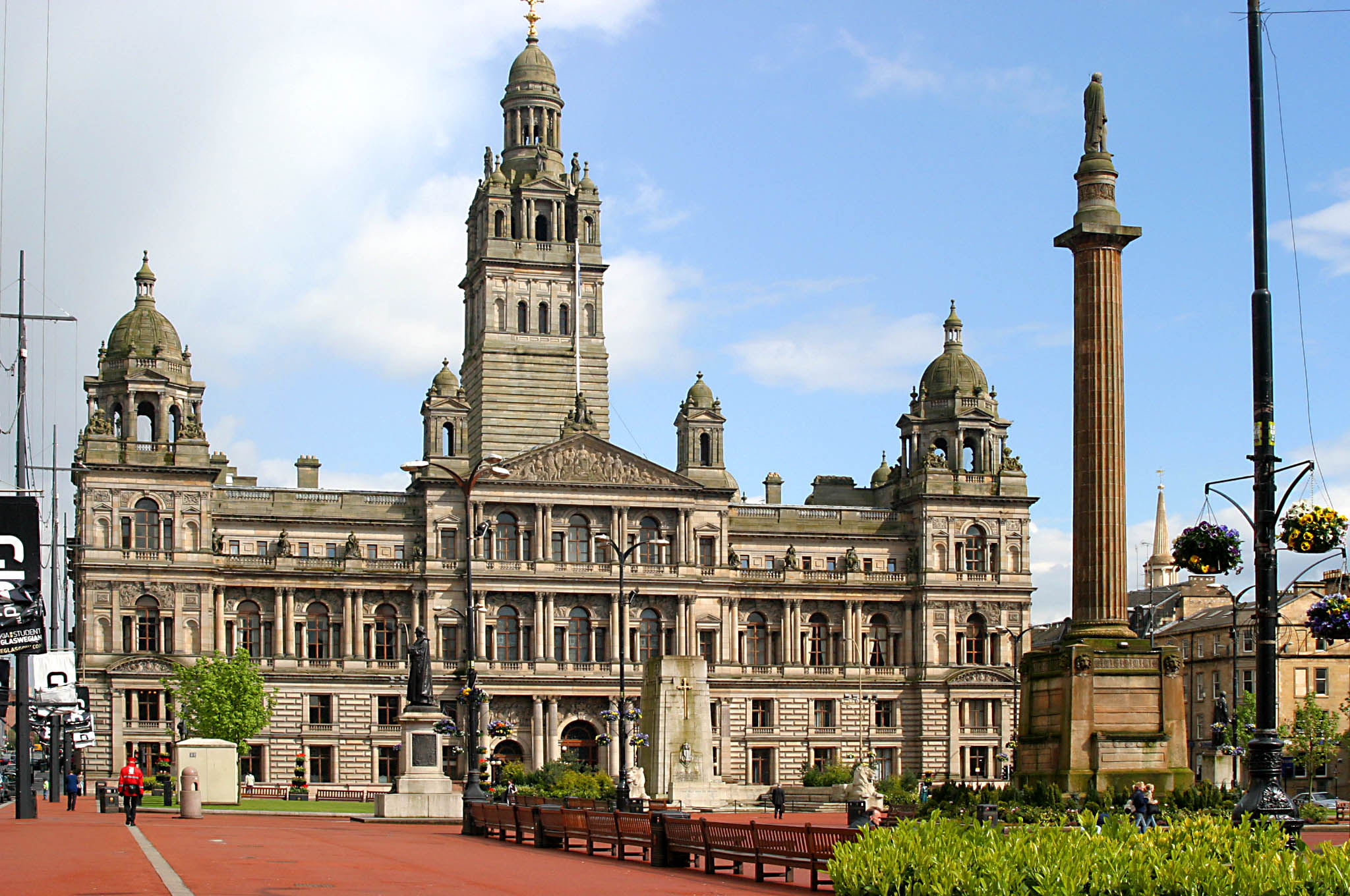 Glasgow City Chambers and War Memorial.